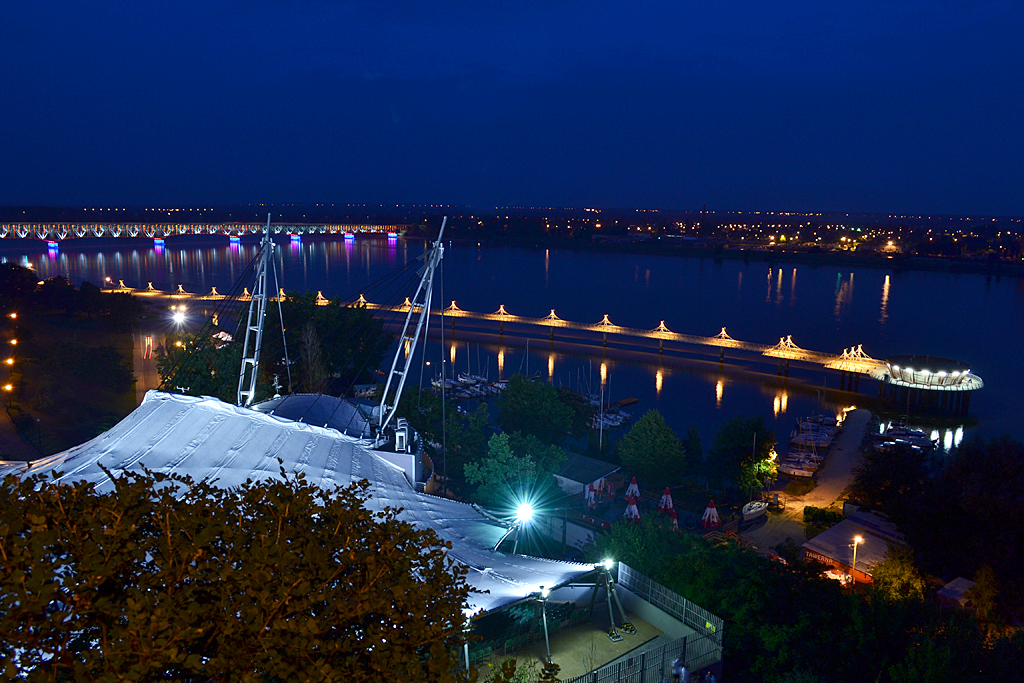 The pier in Płock, Poland.